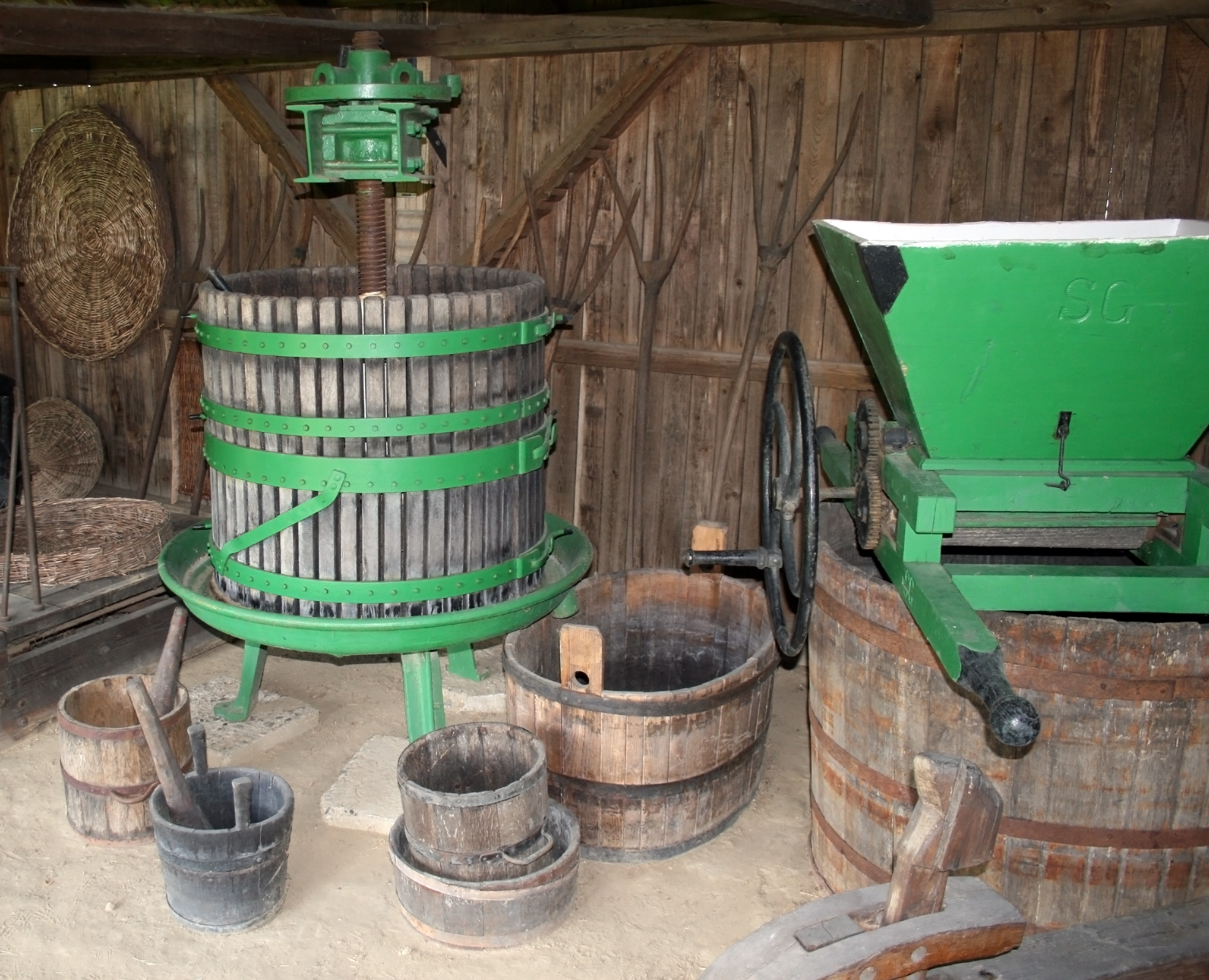 Wine press